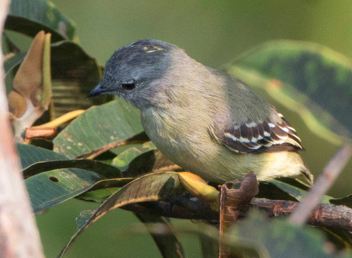 Gray Elaenia near Sacha Lodge, Ecuador